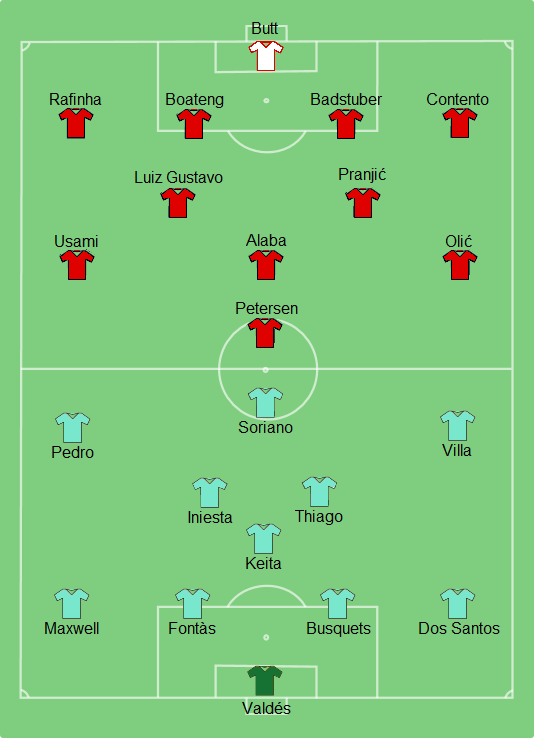 Line-ups for the 2011 Audi Cup Final between Bayern Munich and Barcelona at Allianz Arena, Munich, Germany on 27 July 2011.